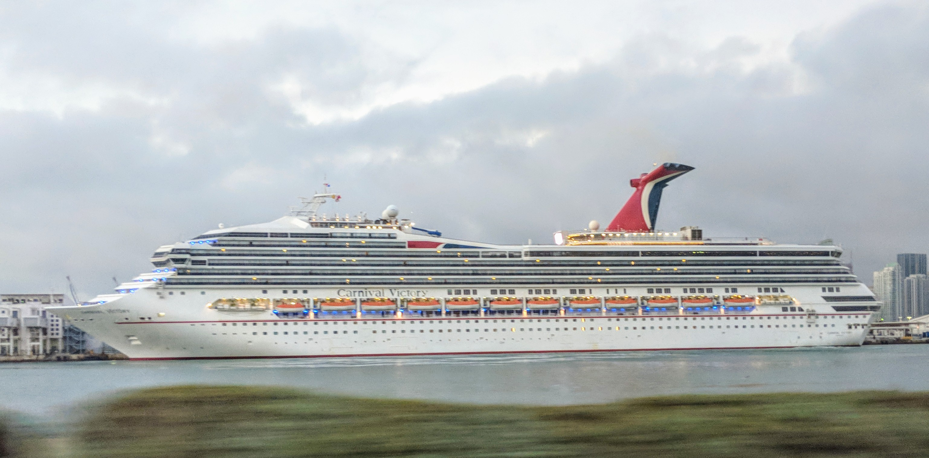 The cruise ship Canival Victory docked in Miami, Florida. Photo by Jim Heaphy.